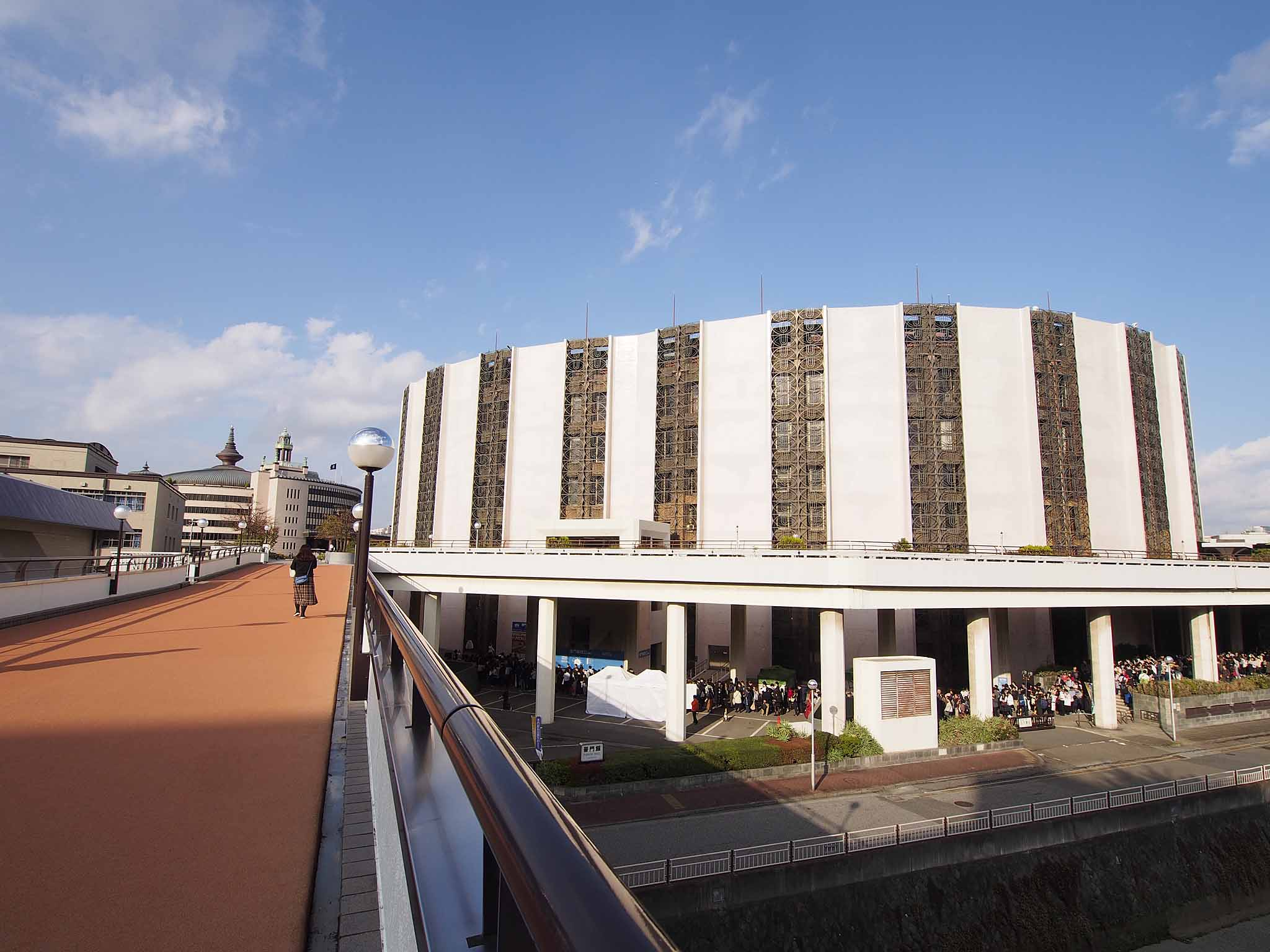 Rissho Kosei-kai Fumon Hall, view from west pedestrian deck, neighbor of Pligrimage Hall No.2.